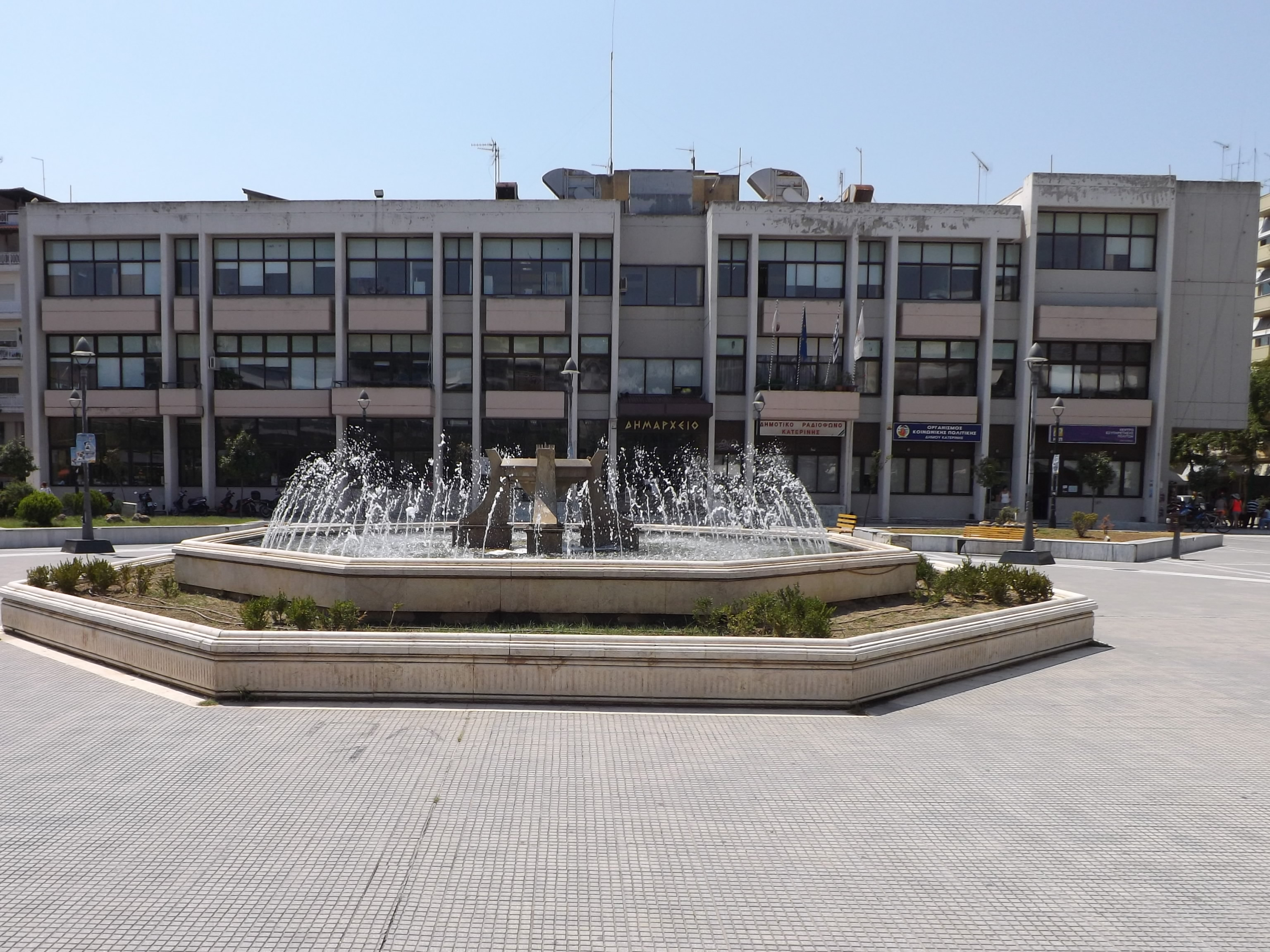 Katerini Town Hall and Dimarcheiou Square